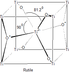 The rutile crystal structure of TiO2